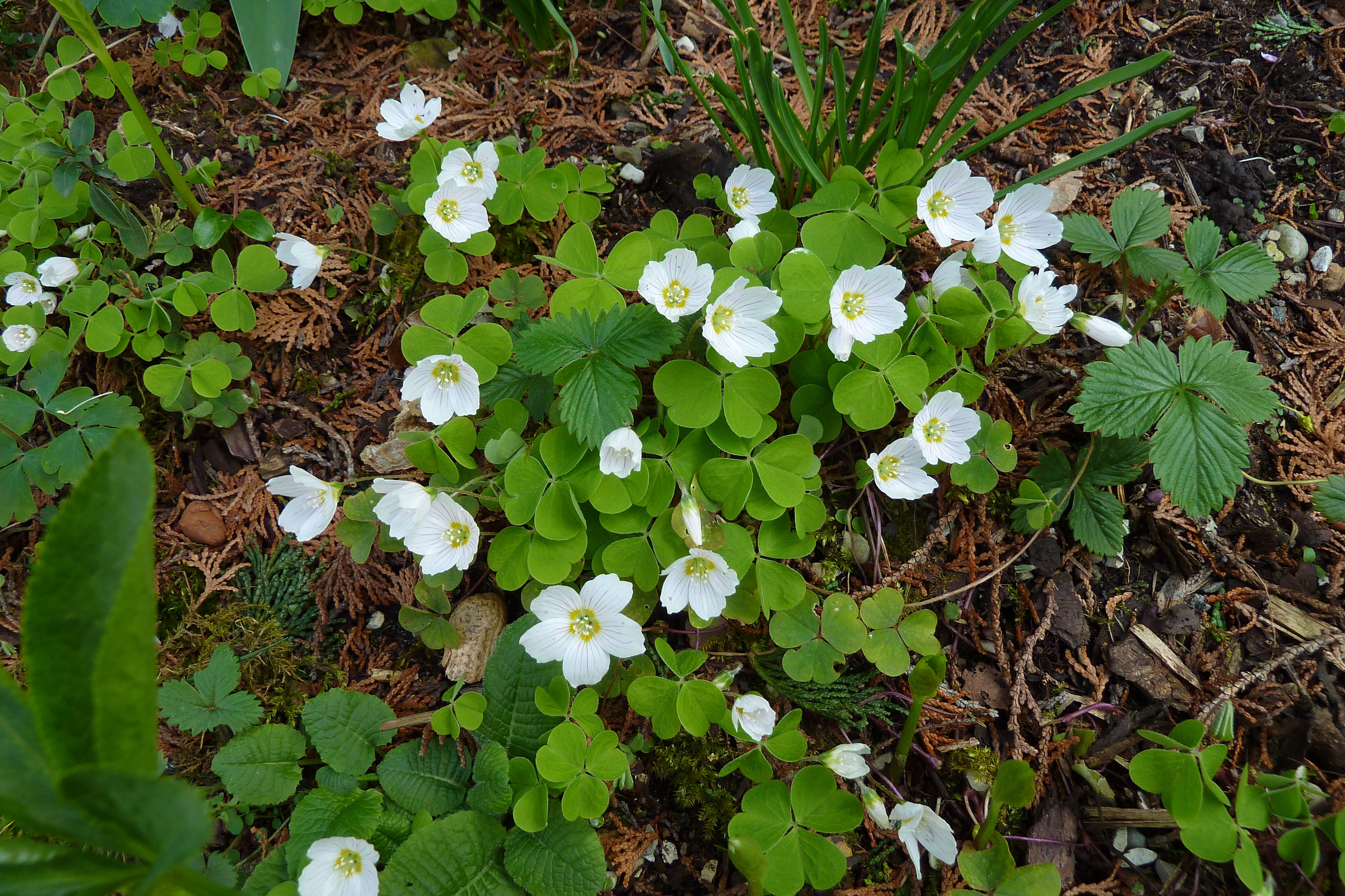 Common wood sorrel